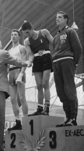 (left-to-right) Henryk Dampc, Nino Benvenuti, Rolf Caroli at the 1959 European Boxing Championships